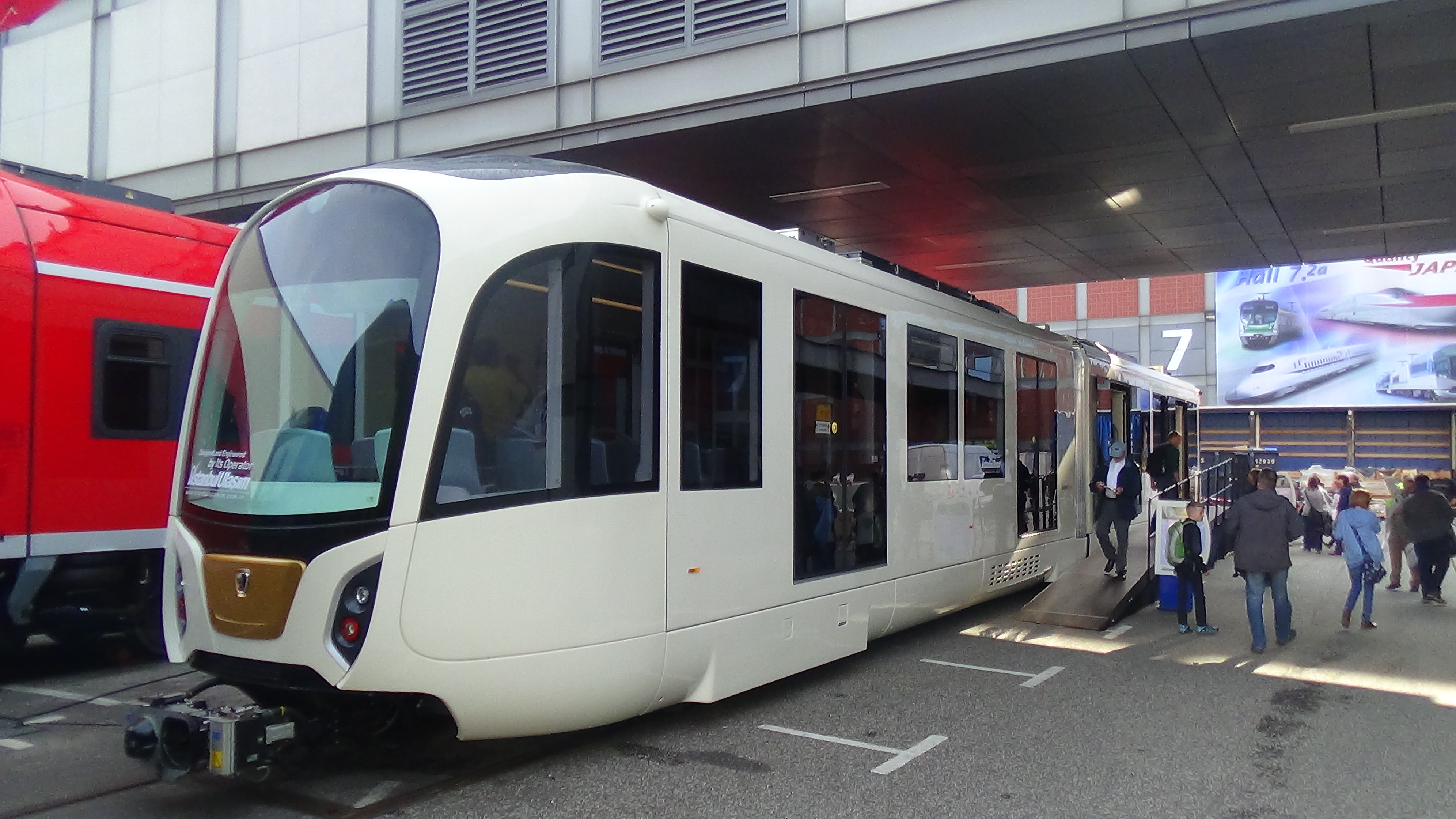 Istanbul Ulasim San. ve Tic. A.S. Istanbul Tram High floor light rail vehicle